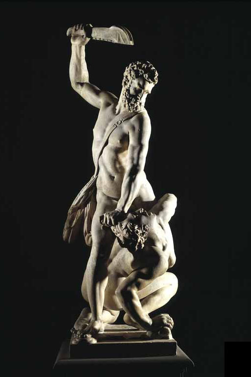 Samson Slaying a Philistine, about 1562, Giambologna (1529-1608) V&A Museum no. A.7- 1954 Techniques - carved marble Place - Florence, Italy Dimensions - Height 209 cm